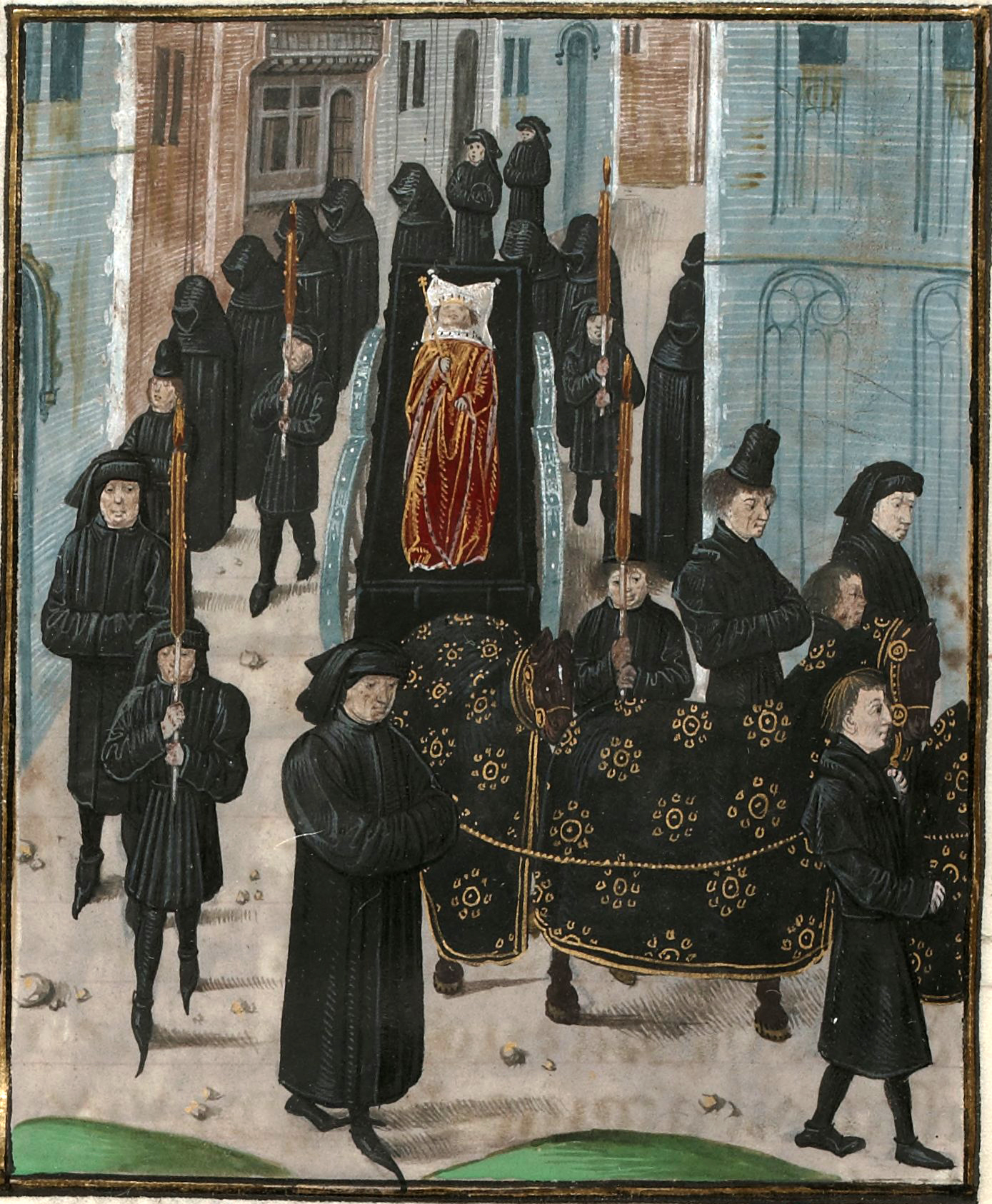 Funeral of Richard II of England